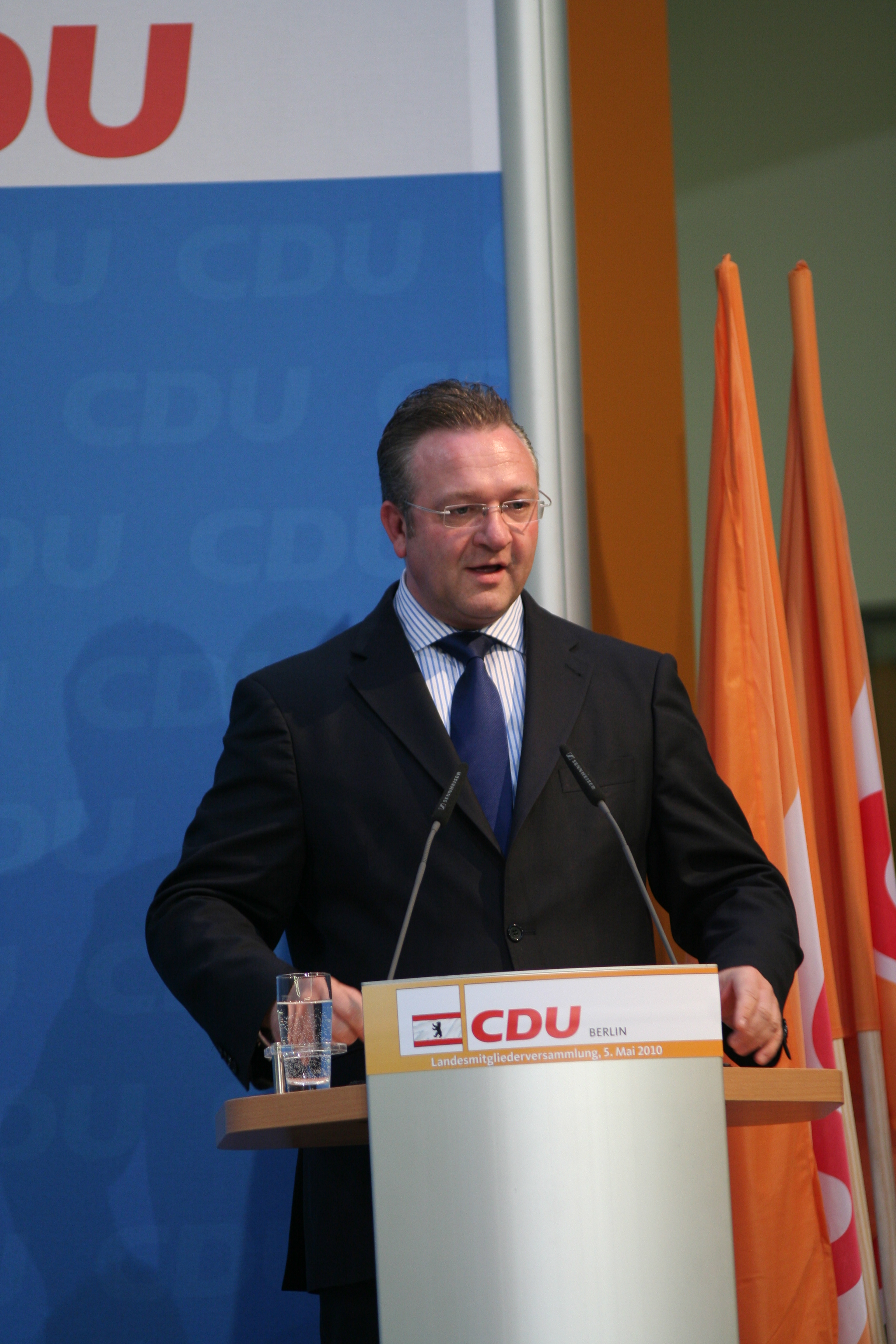 Frank Henkel at the general meeting of the CDU Berlin